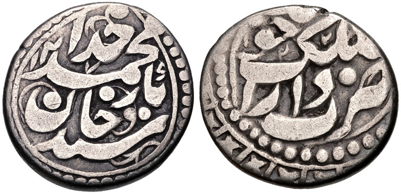 ISLAMIC, Persia (Post-Mongol). Minghs (Khanate of Khokand). Muhammad Khudayar. Second reign, AH 1278-1280 / AD 1862-1863. AR Tenga (15mm, 2.81 g, 2h). Khoqand mint. Dated AH 1279 (AD 1862/3). Album 3069. VF, lightly toned.